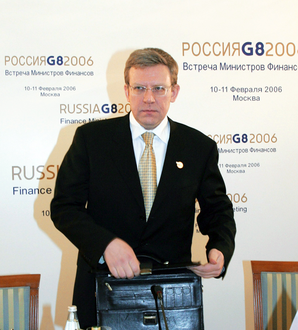 Russia's Minister of Finance Alexei Kudrin during meeting of G8 finance ministers.